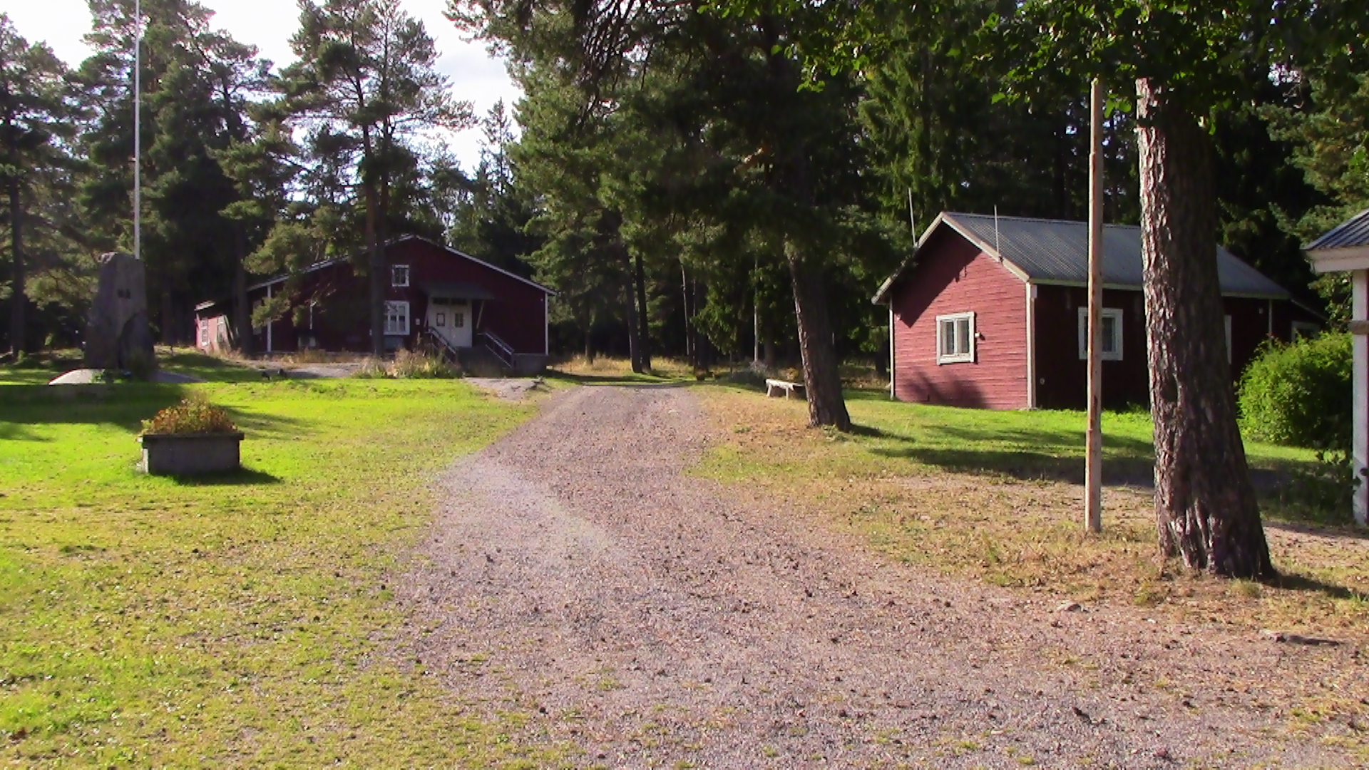 Kuuskajaskari village in an island with the same name seen from local boat harbour.